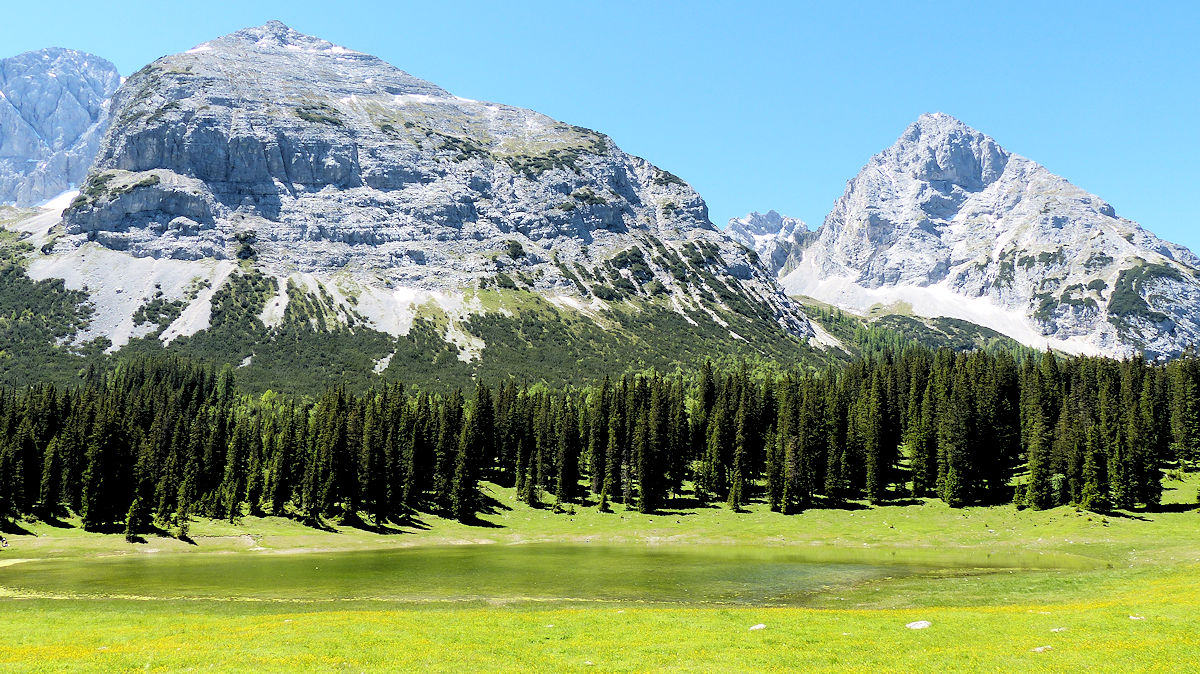 Lake Igelsee in the upper Gaistal valley in front of Igelskopf (left) and Vorderer Tajakopf (right)